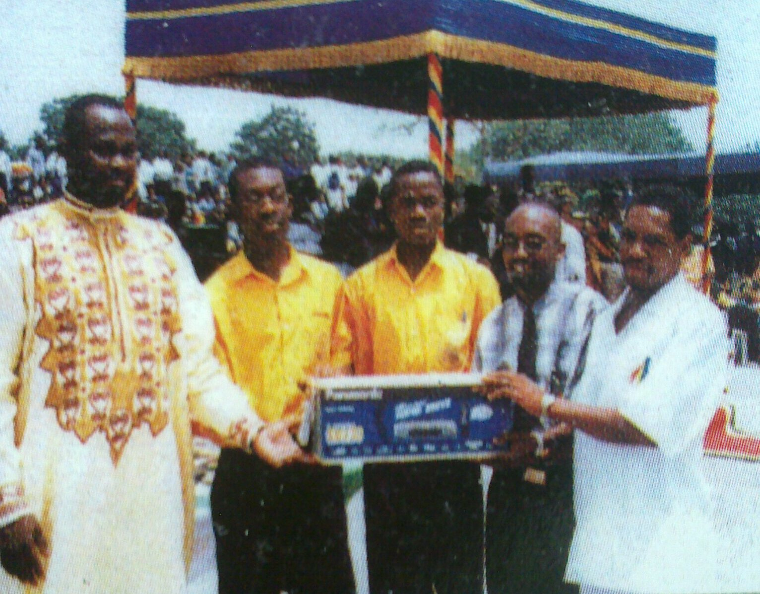 pojoss